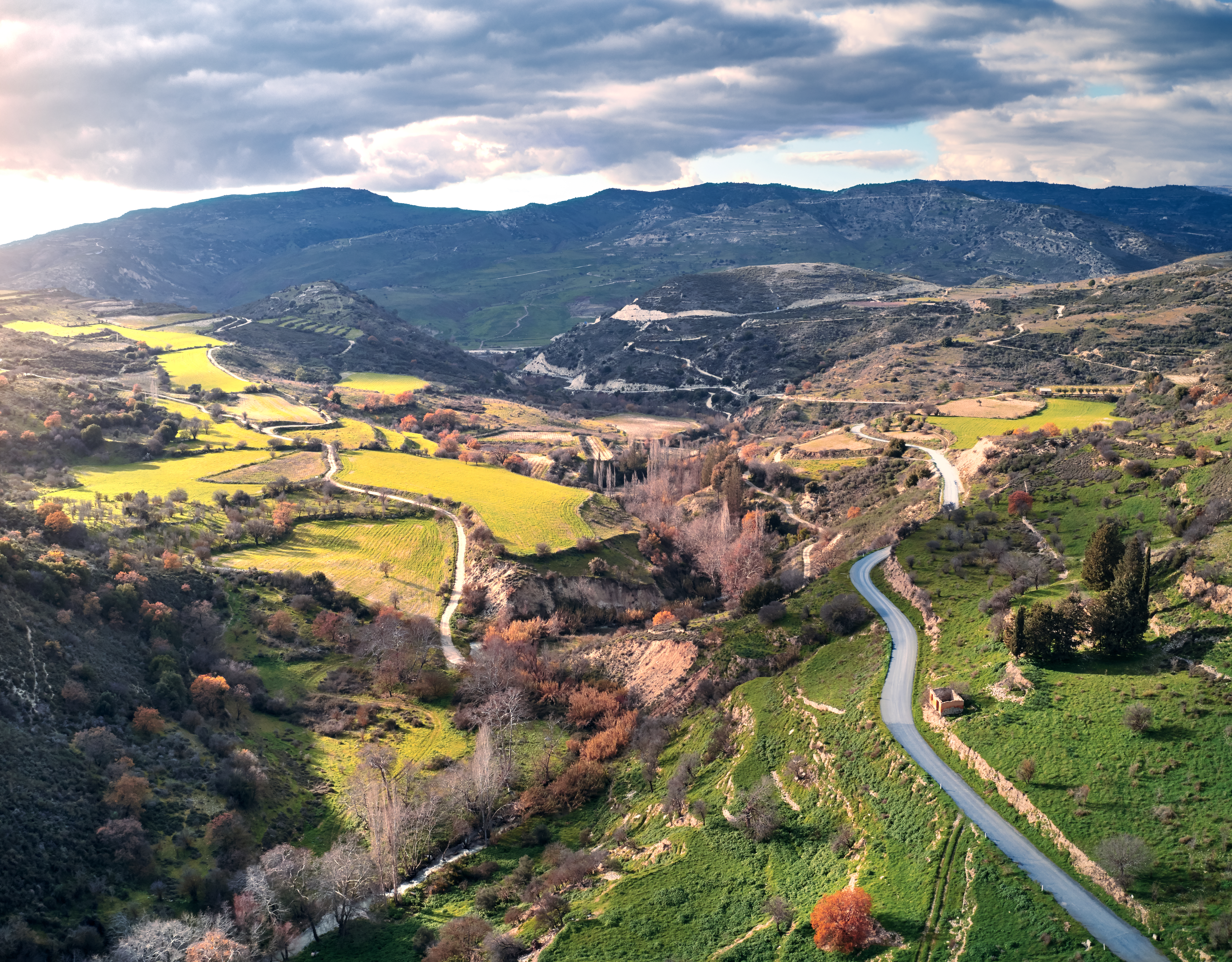 Fields near Gerovasa, Cyprus.